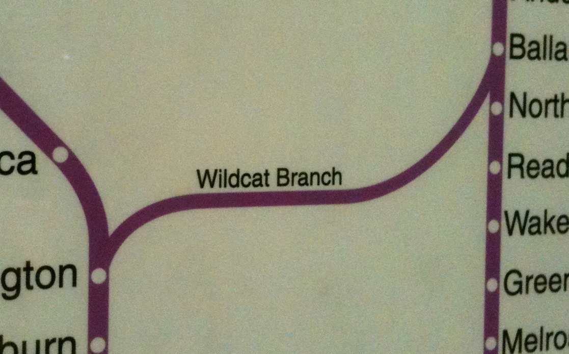 A section of an MBTA Commuter Rail map at Back Bay Station, showing the Wildcat Branch